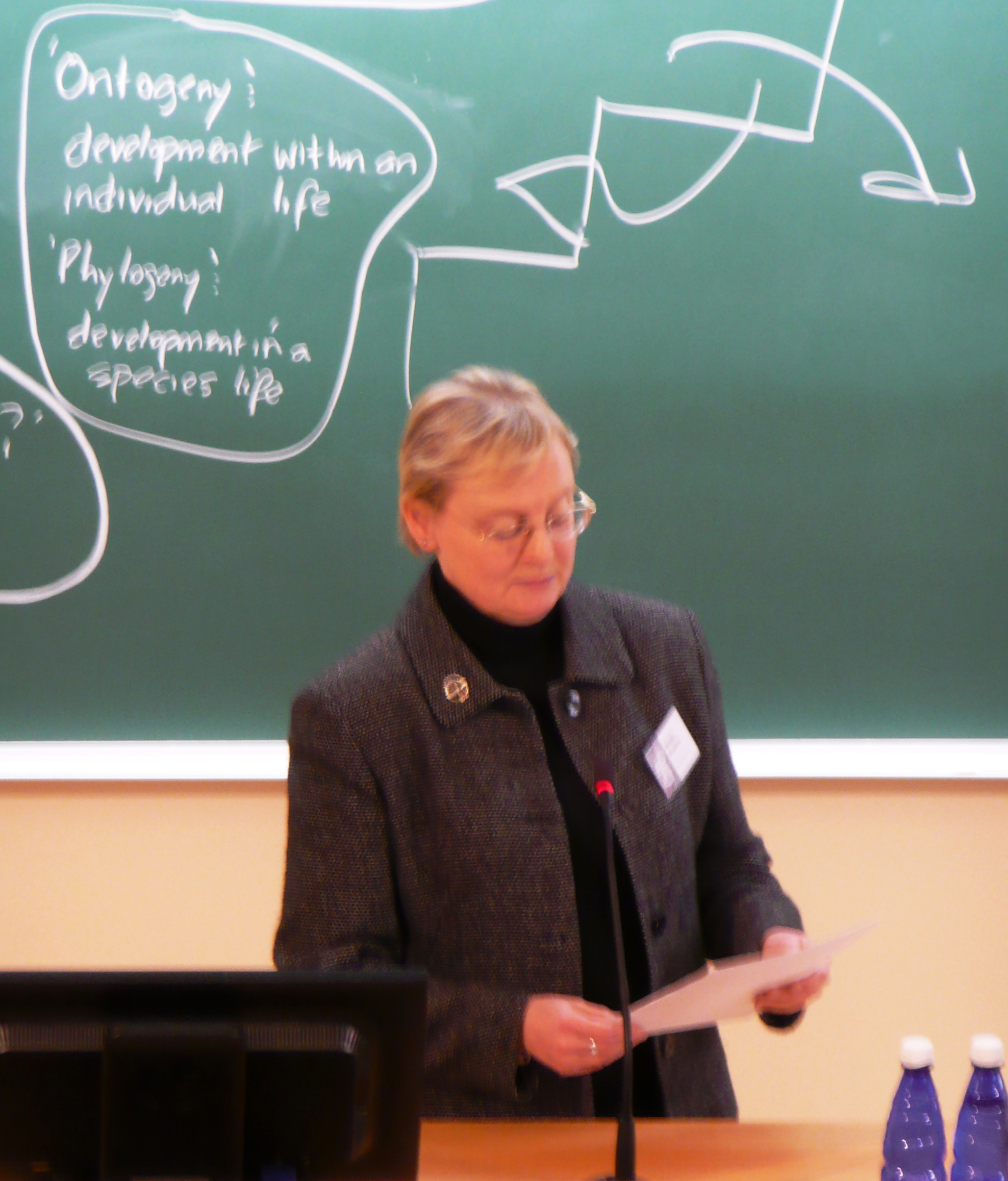 Kristin Kuutma (*1959) is an Estonian anthropologist and ethnologist, a professor at the University of Tartu.